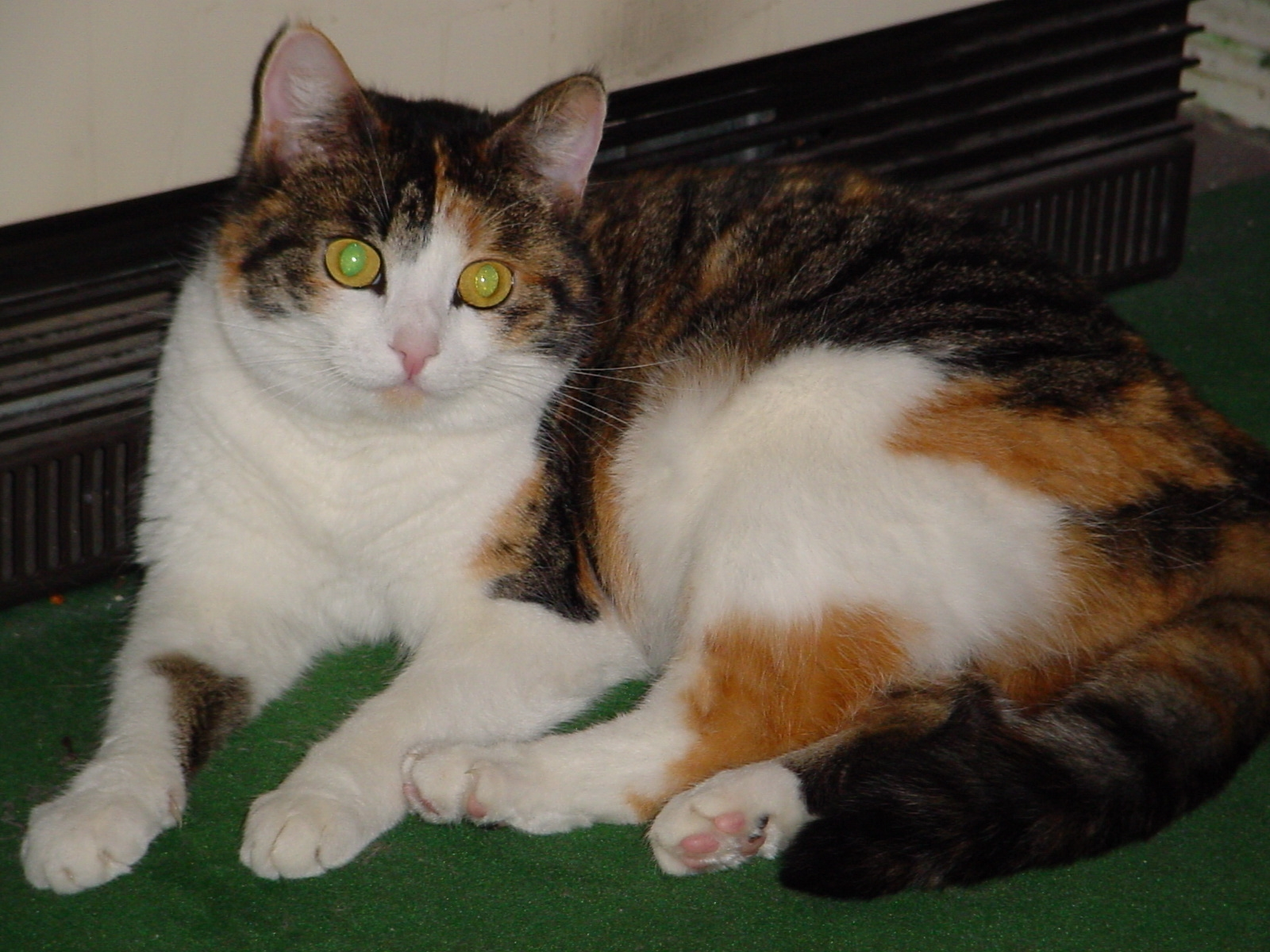 A photograph of a cat showing eyeshine, not red-eye effect. Taken by User:Angr.